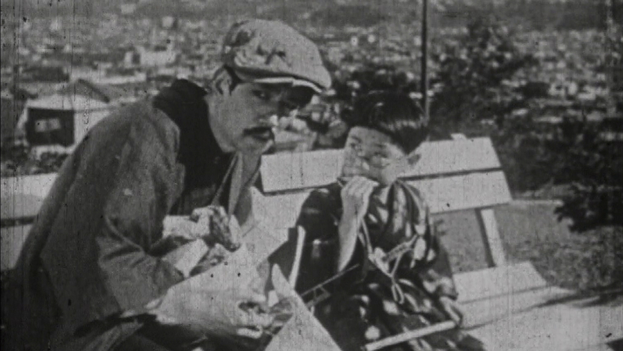 Tatsuo Saitō and Tomio Aoki in Tokkan kozō (1929)